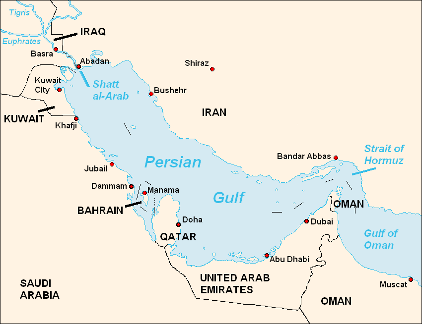 FrenchCarte dugolfe Persique(wp-FR),avec noms en anglais.EnglishMap ofPersian Gulf(wp-EN),with English names.